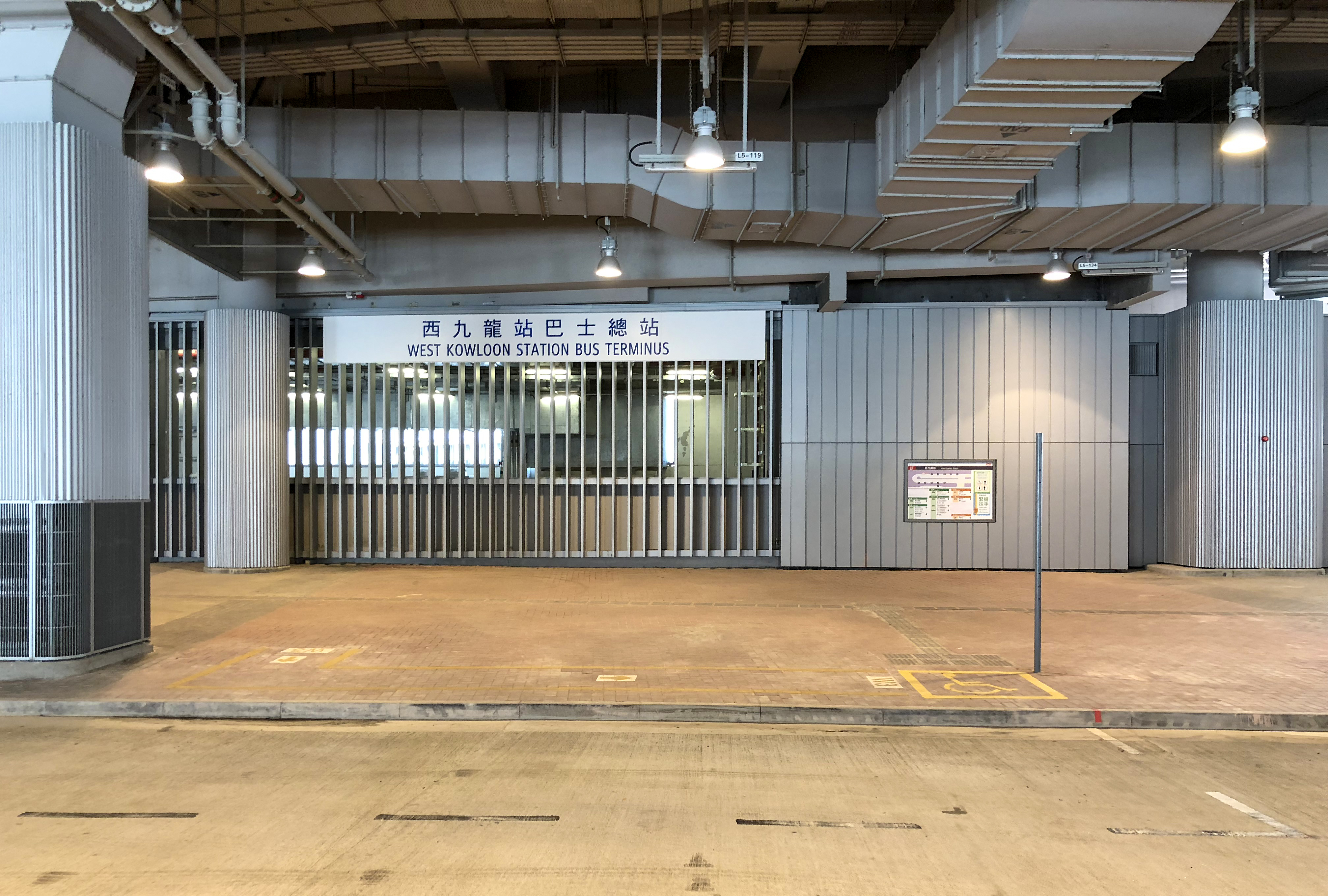 The southwest part is for 42A and three new routes.